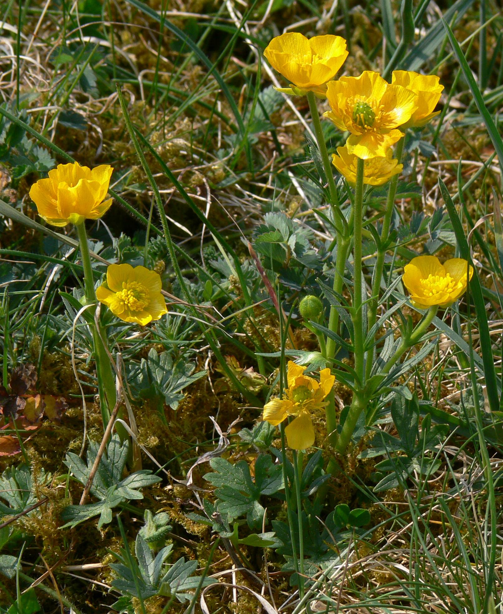 Carinthian buttercup - Ranunculus carinthiacus